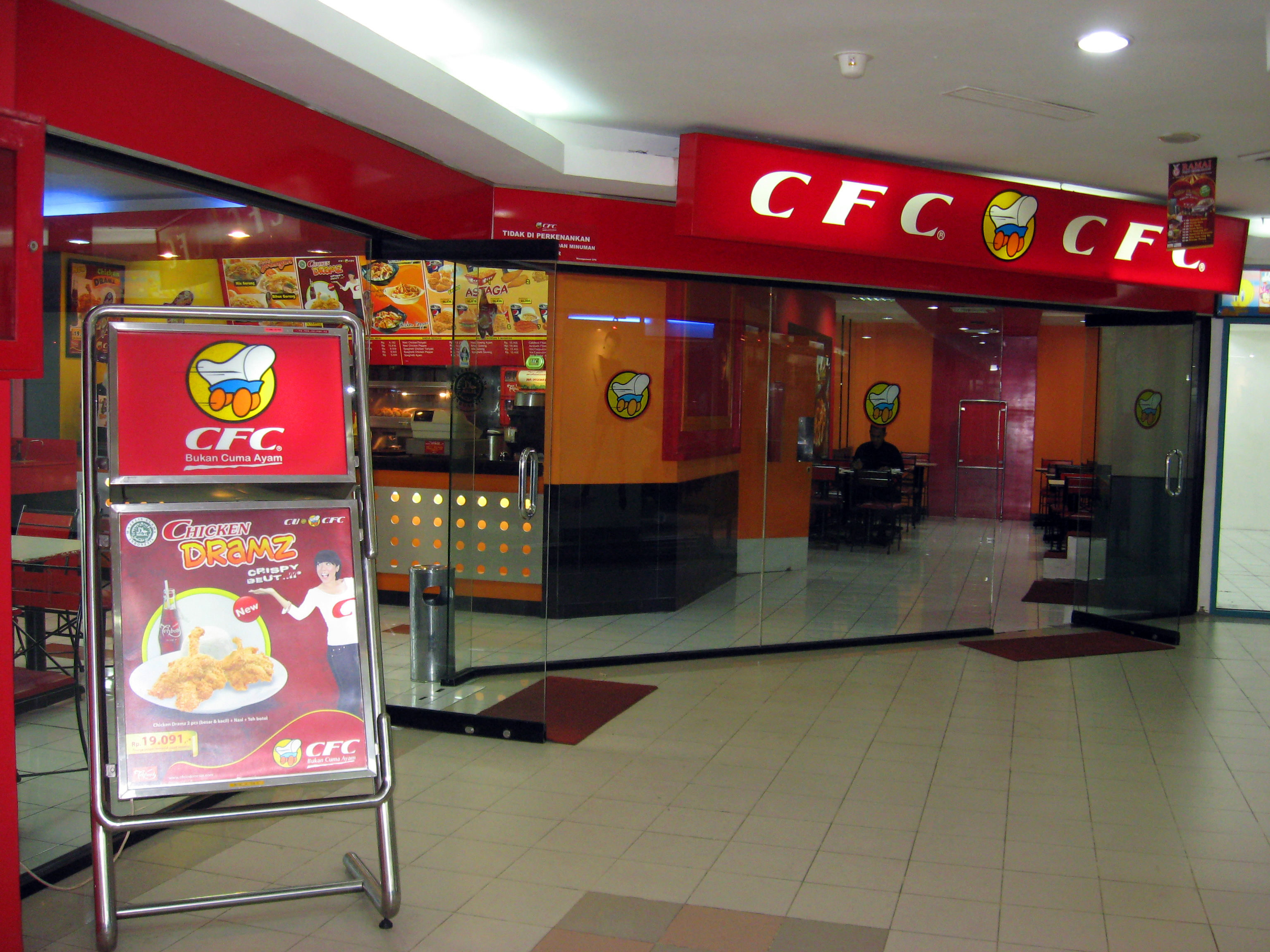 A branch of California Fried Chicken in Ramai Mall, Yogyakarta